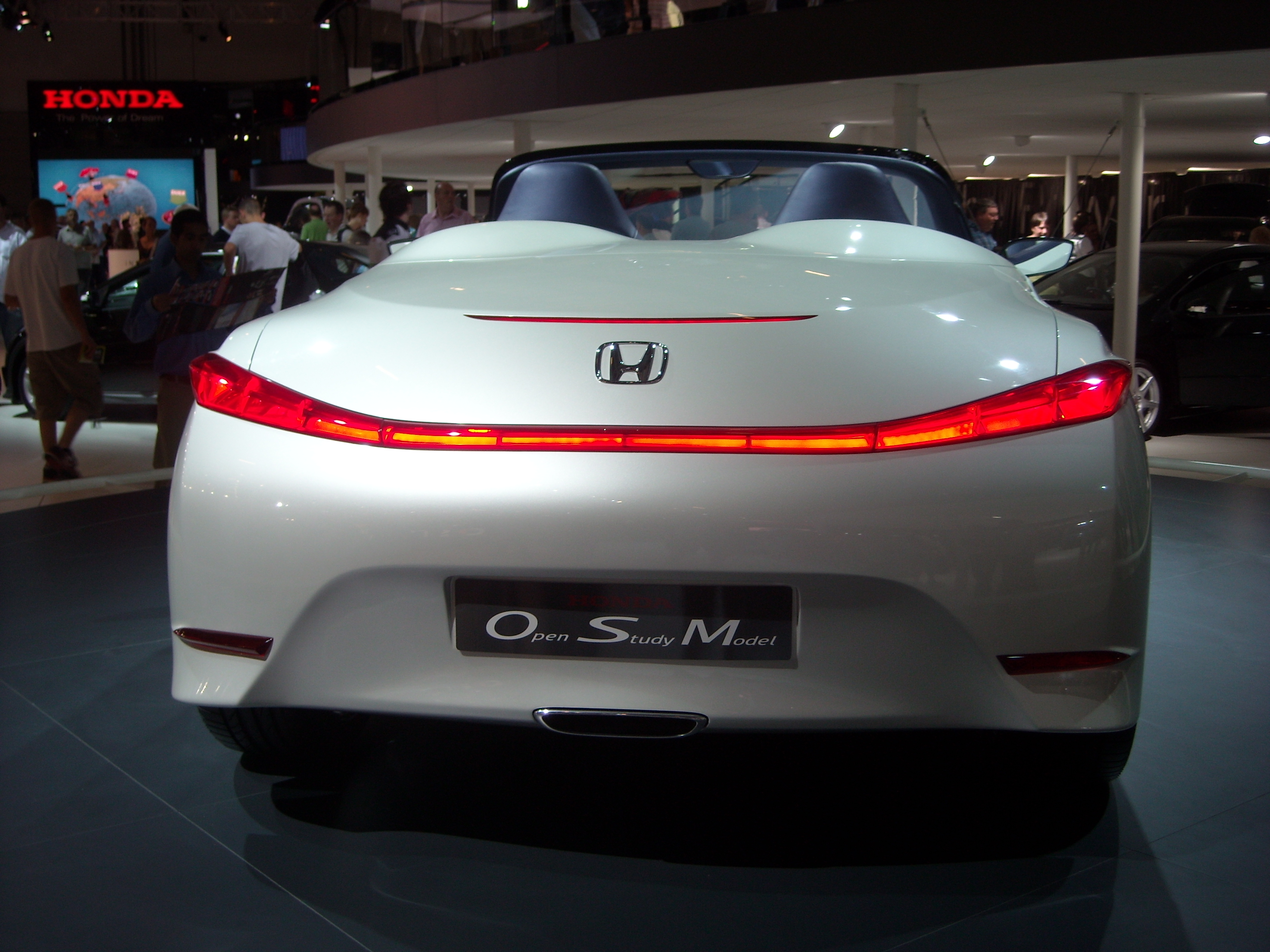 Rear view of the Honda OSM concept at the British Motor Show 2008.